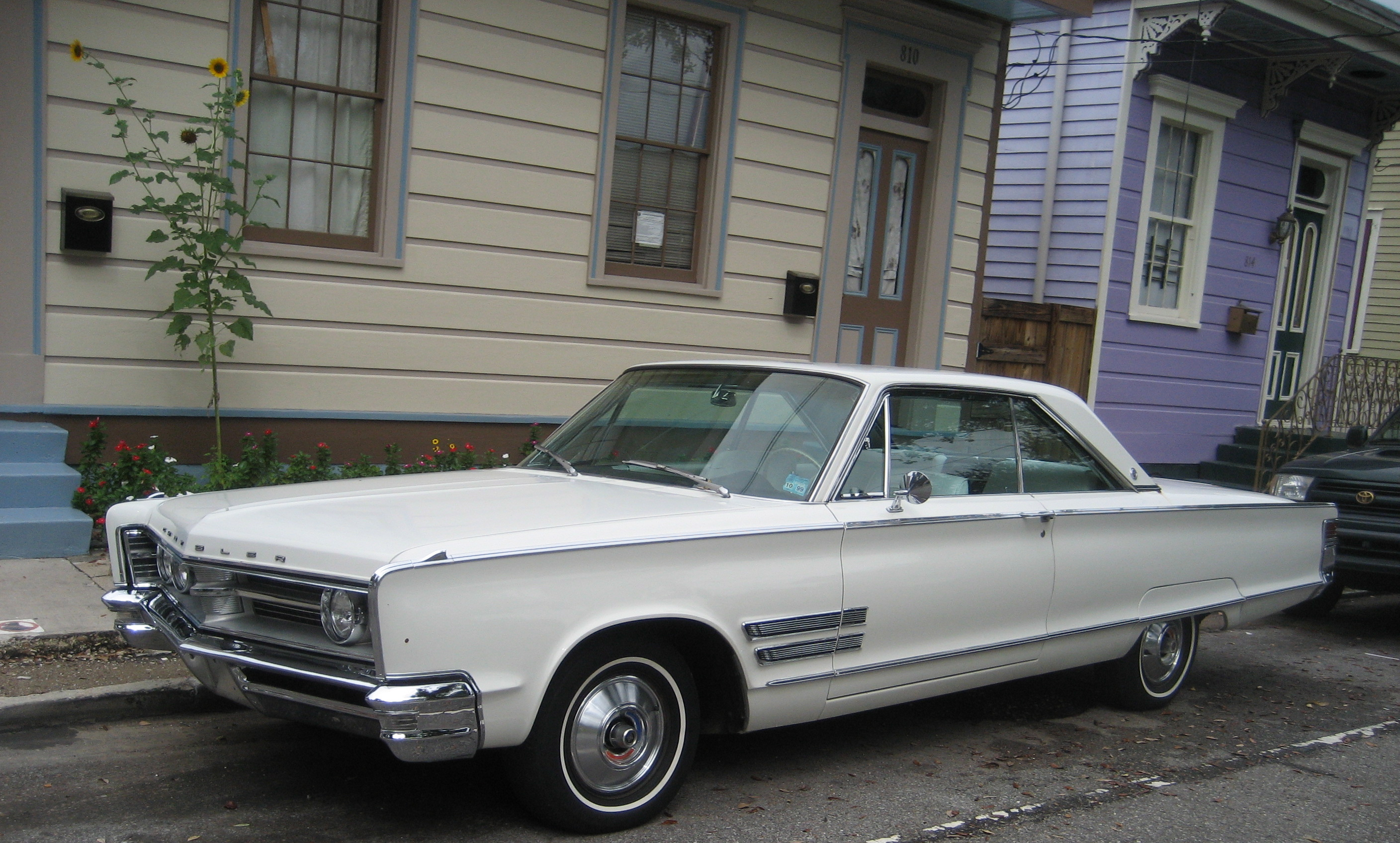 1966 Chrysler 300 seen on street in Bywater neighborhood of New Orleans.